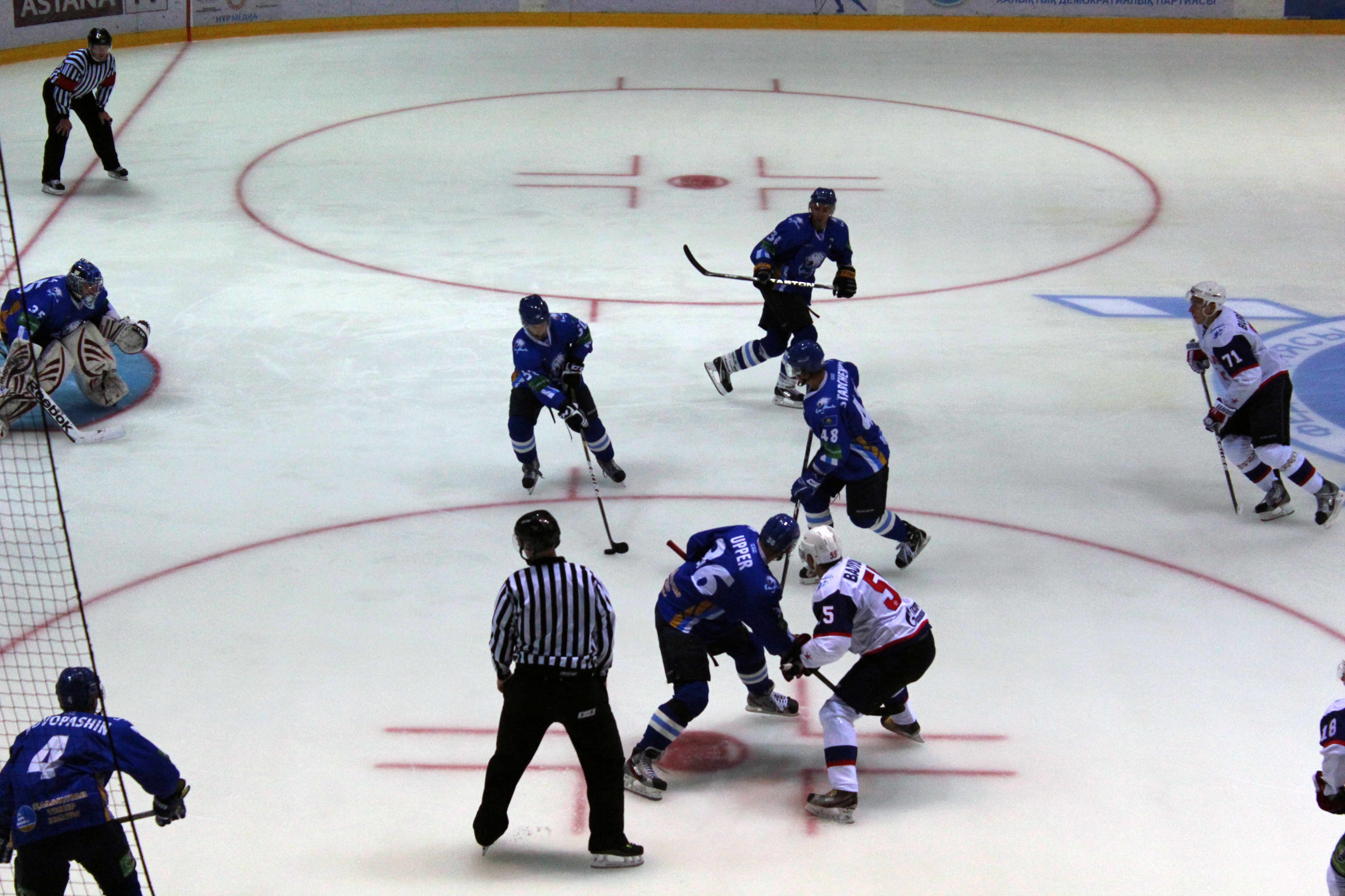 Barys Astana vs SKA Saint Petersburg preseason match during President of the Republic of Kazakhstan's Cup.